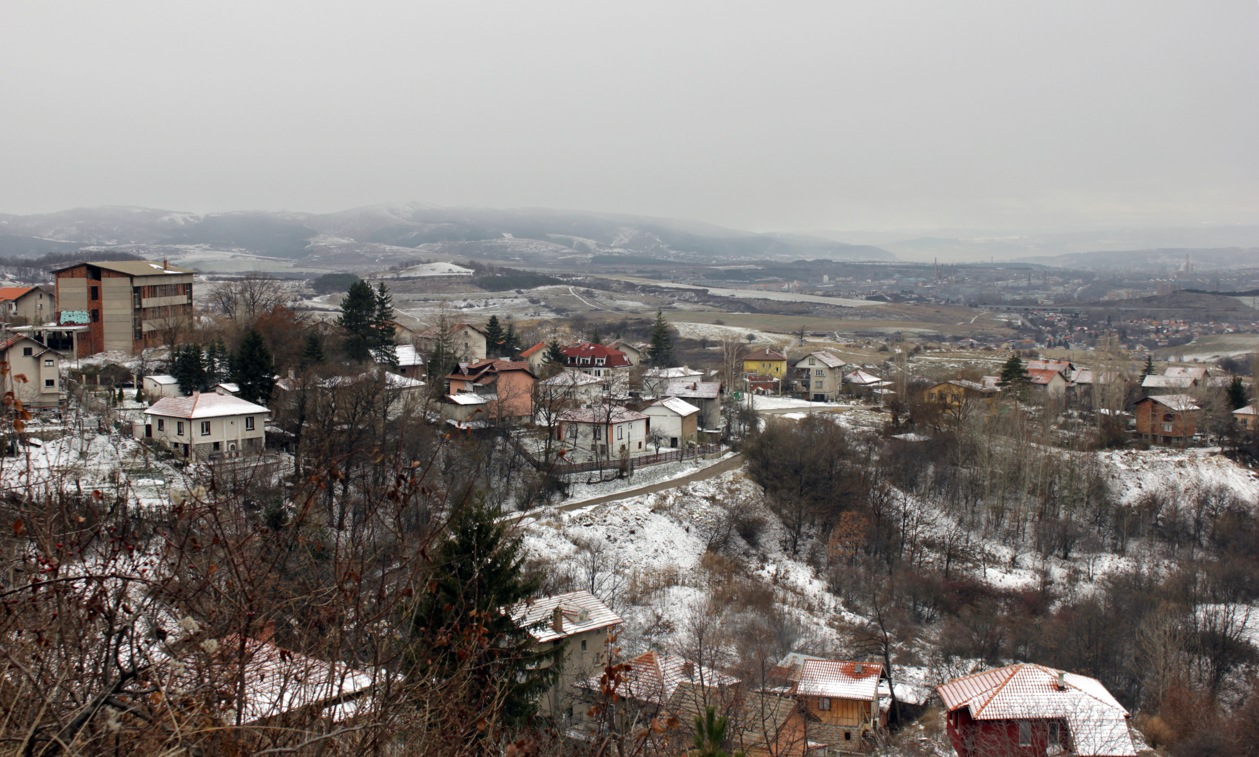 View of Marchaevo village